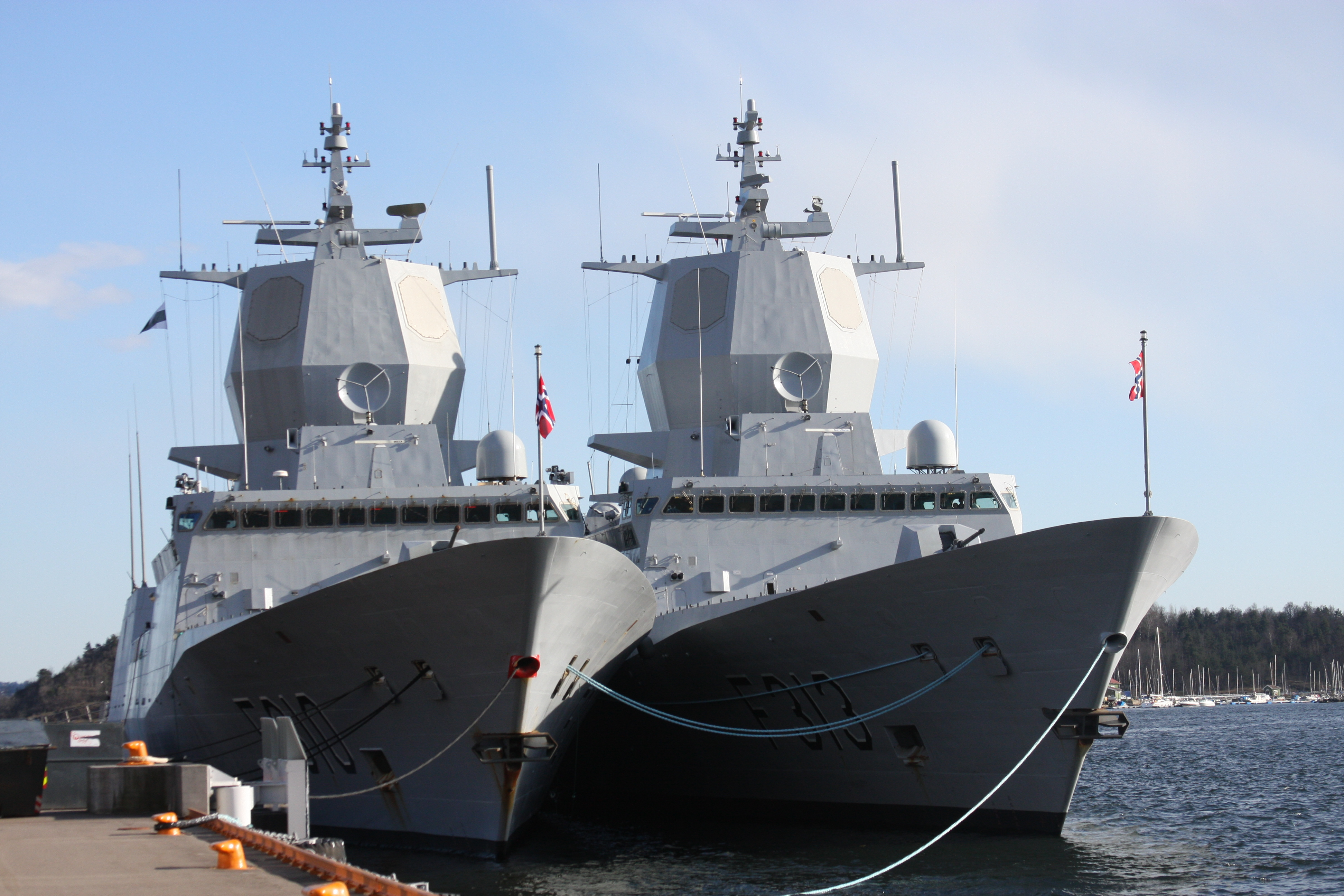 Frigates "KNM Fridtjof Nansen" and "KNM Helge Ingstad", in Oslo.